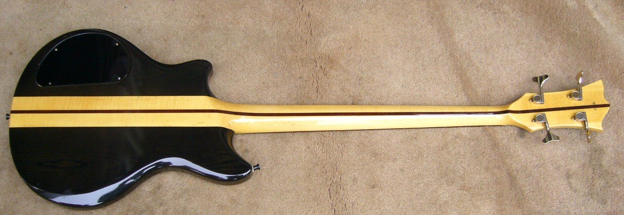 photo